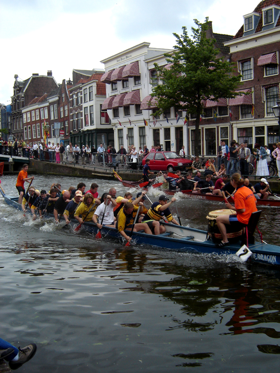 Dragonboat race on the Oude Rijn ("Old Rhine") in the centre of Leiden as part of the celebrations of the "Lakenfeesten".